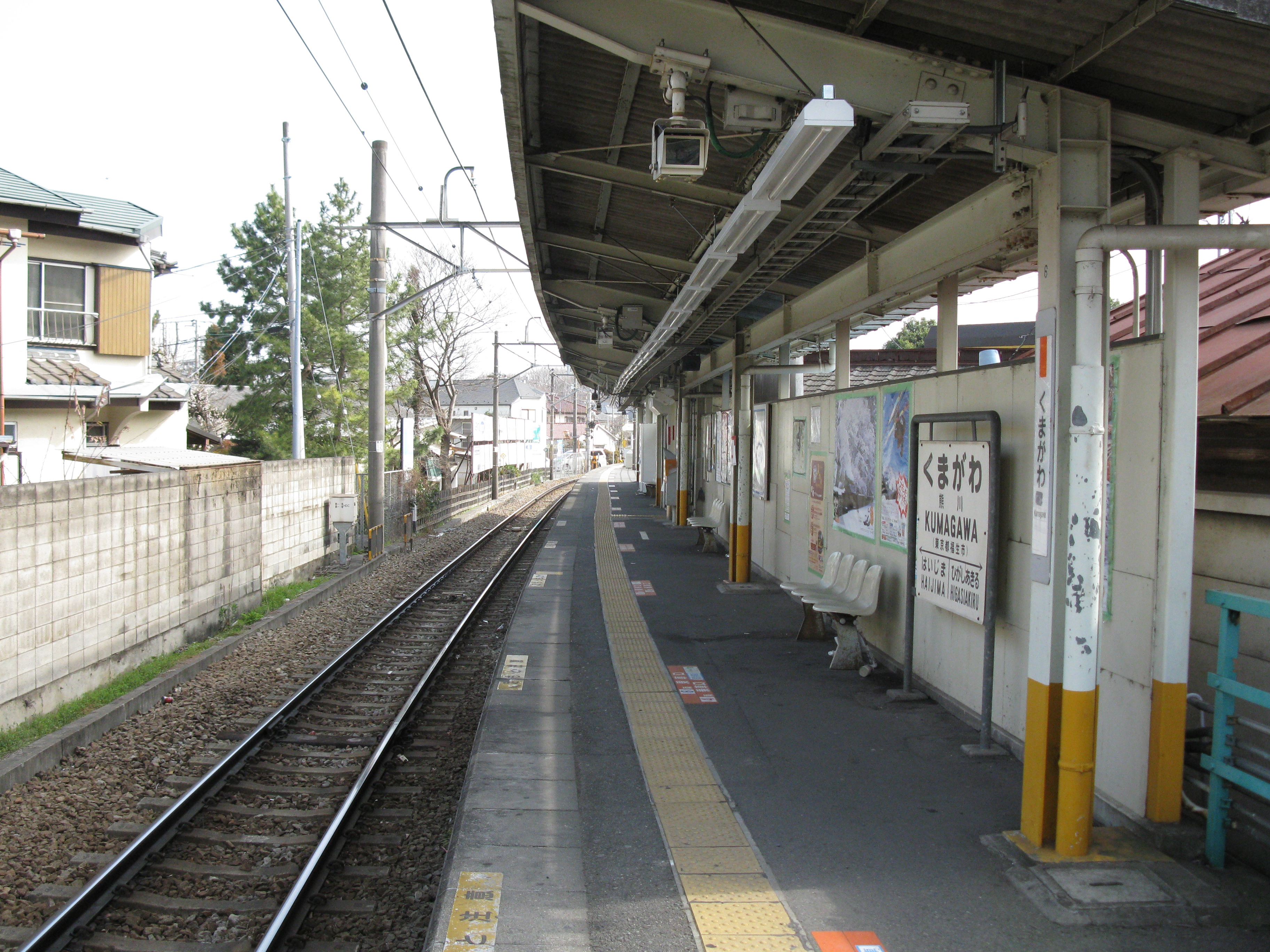 Kumagawa Station platform (East Japan Railway Itsukaichi Line)